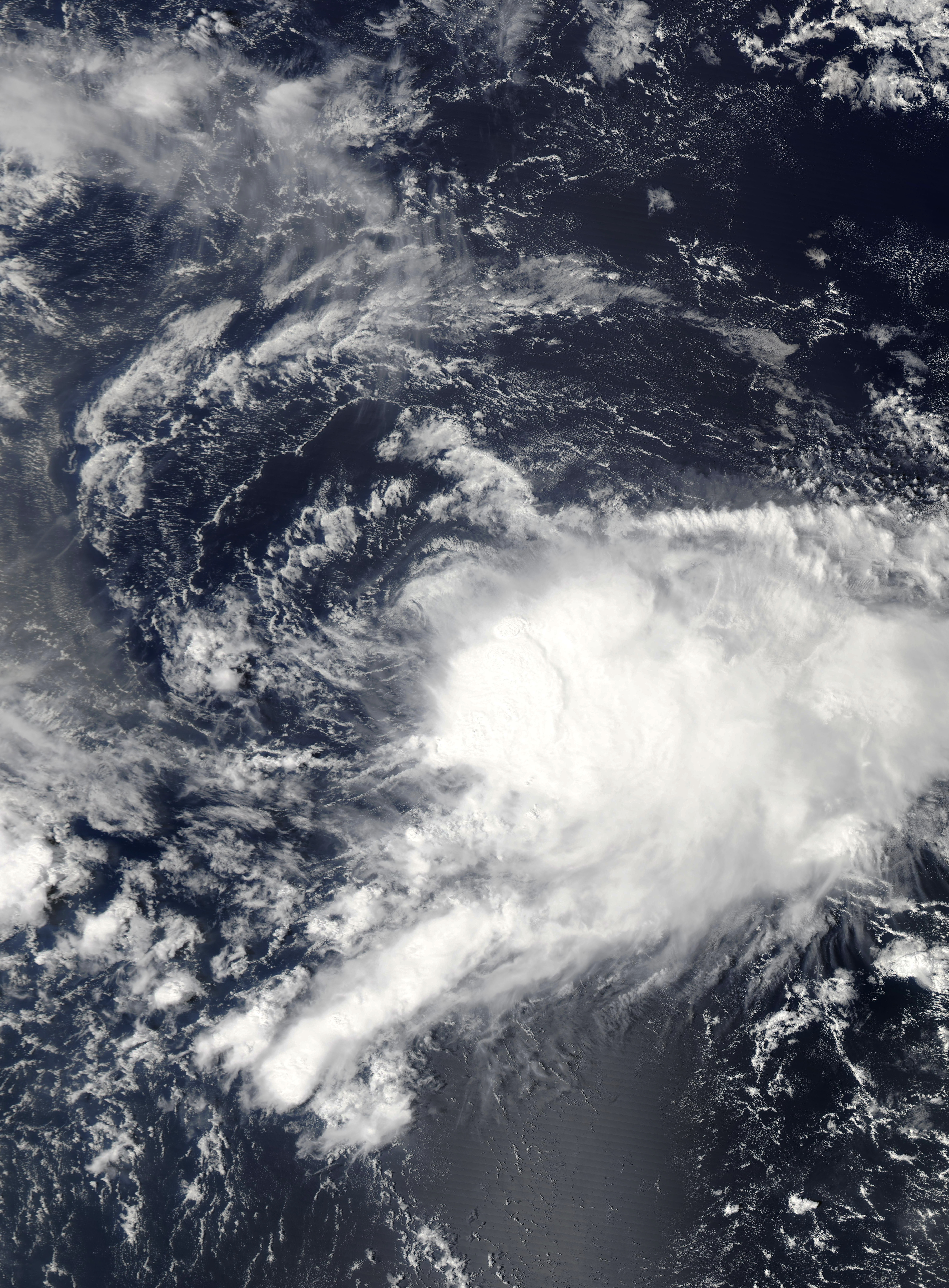 Tropical Storm Nana on October 12